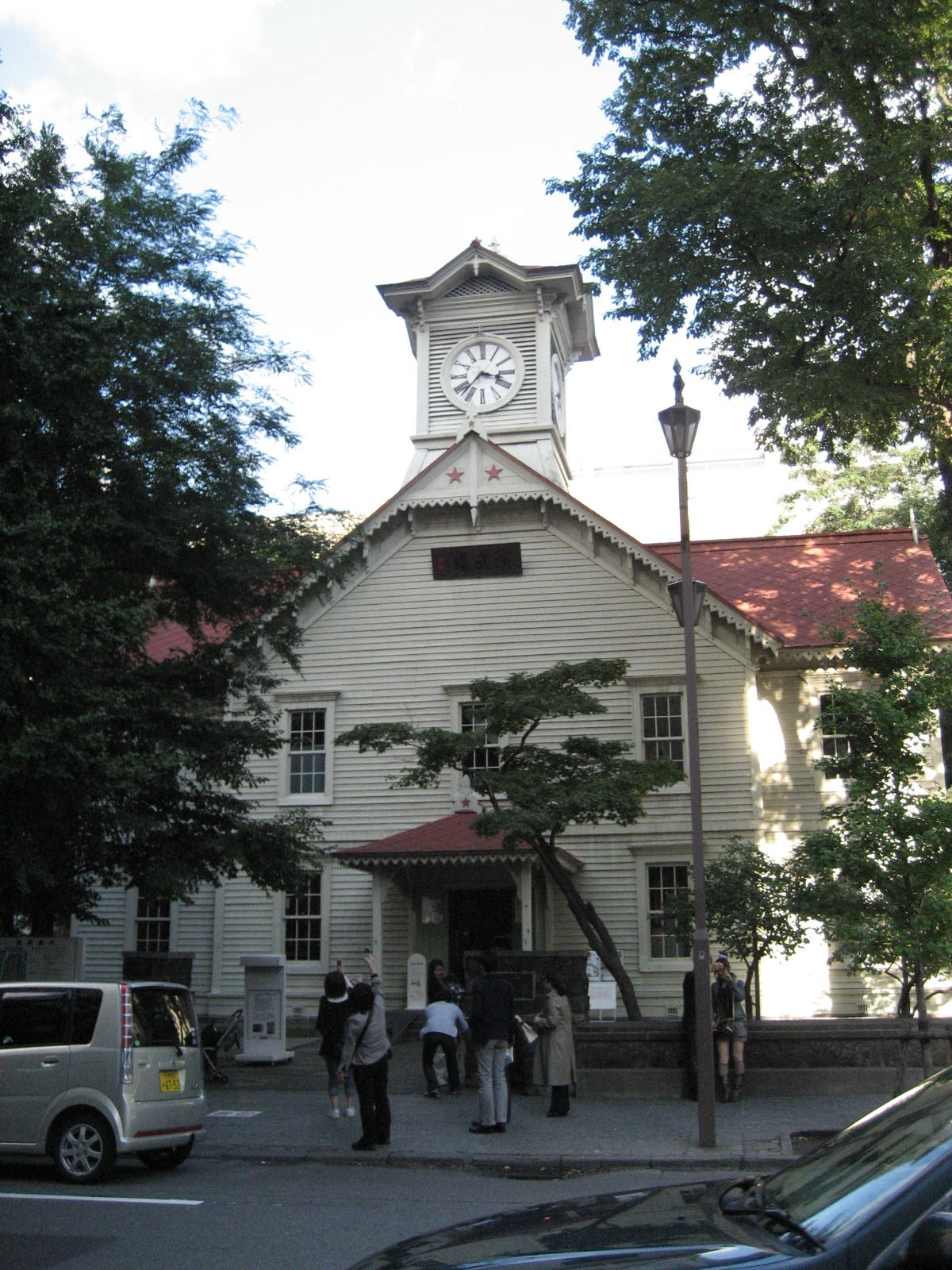 Sapporo Clock Tower